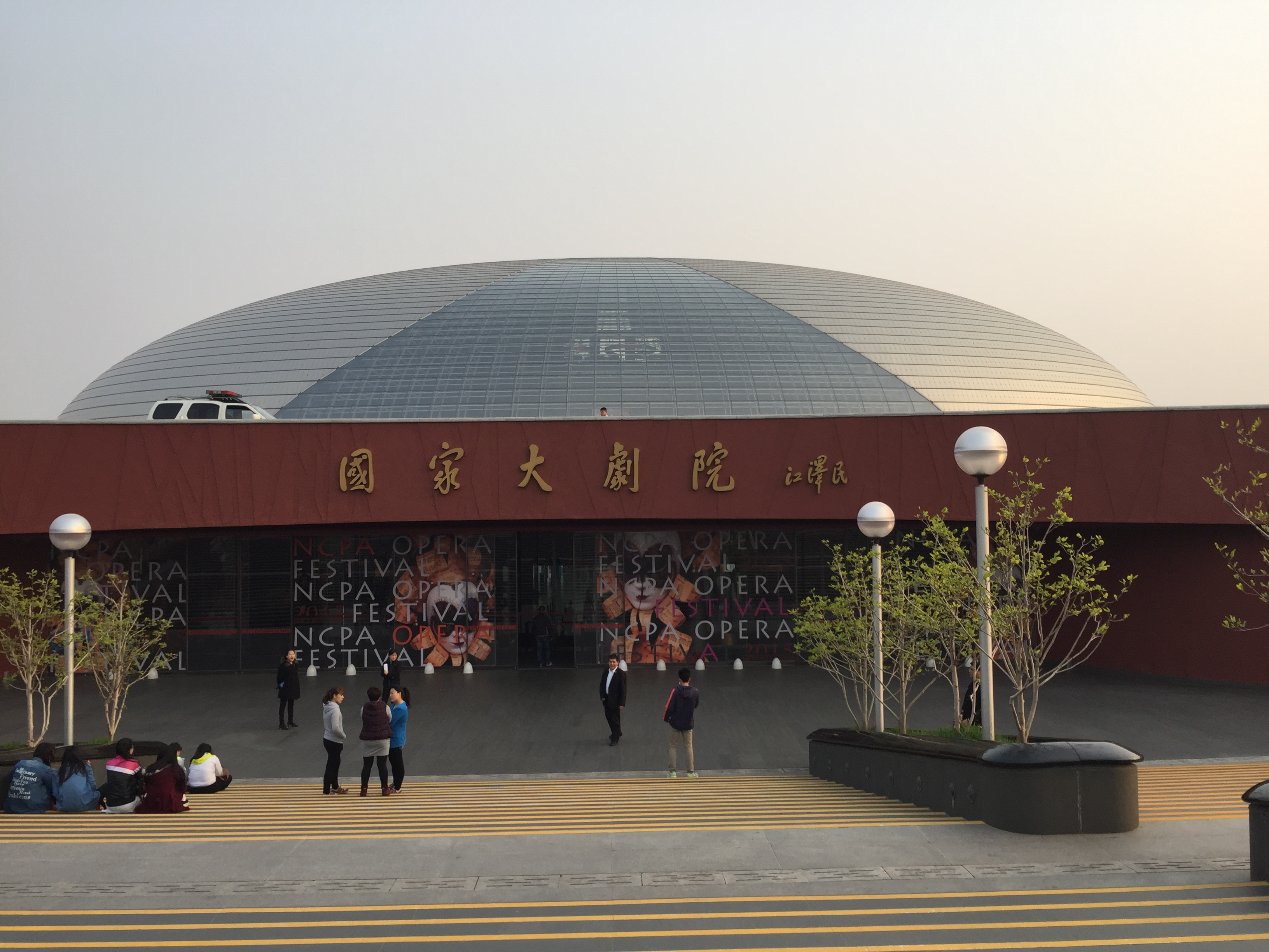 NCPA, the "Giant Egg", holds its own Opera Festival every year since 2009. Der Rosenkavalier was the first opera during the 2015 NCPA-Operafest. Note the signature of Jiang Zemin.